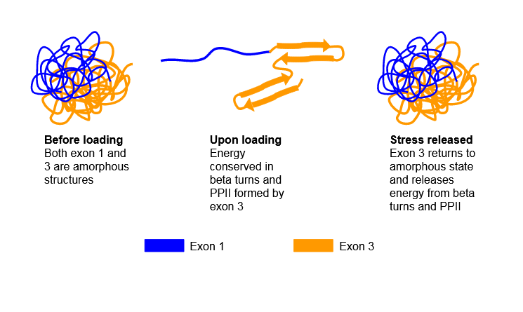 The mechanism of action of resilin before and after loading